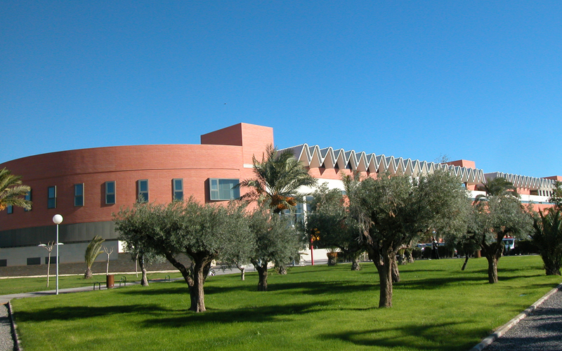 Altabix Building, Campus of Elche, UMH